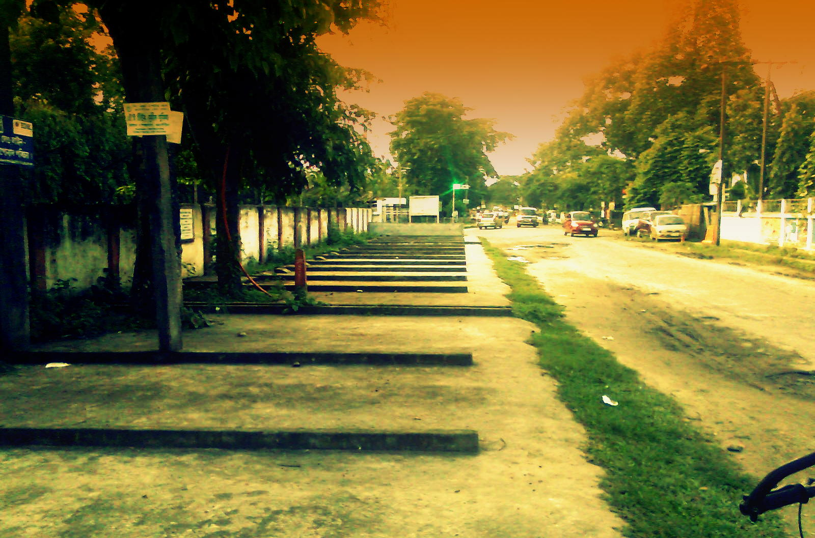 enter gate